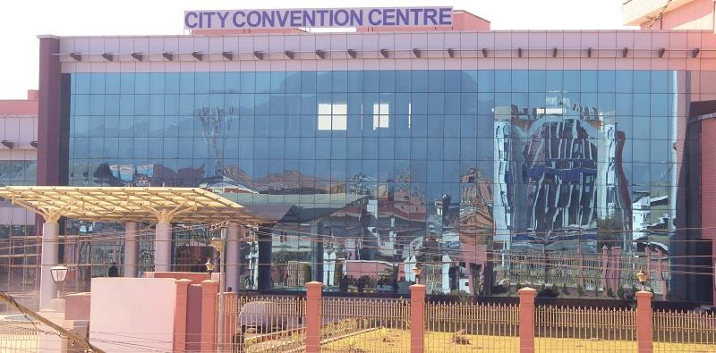 City center imphal